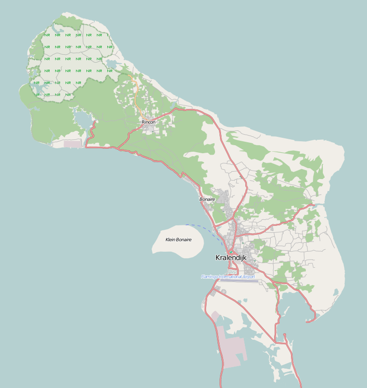 Map of Bonaire for pin Geographic limits of the map: N: 12.32° S: 12.058° W: -68.434° E: -68.18°